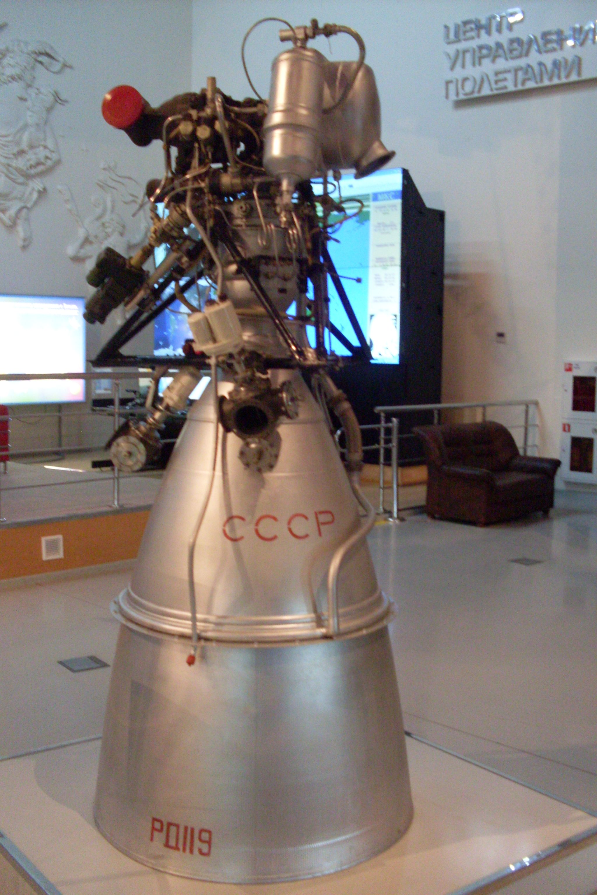 Rocket engine RD-119 at Memorial Museum of Astronautics (Moscow). Designed from 1958 to 1962 by lab OKB-456 lead by Valentin Glushko. Used from 1962 to 1977 especially on the rocket Kosmos. Lab OKB-456 offered it to the museum.